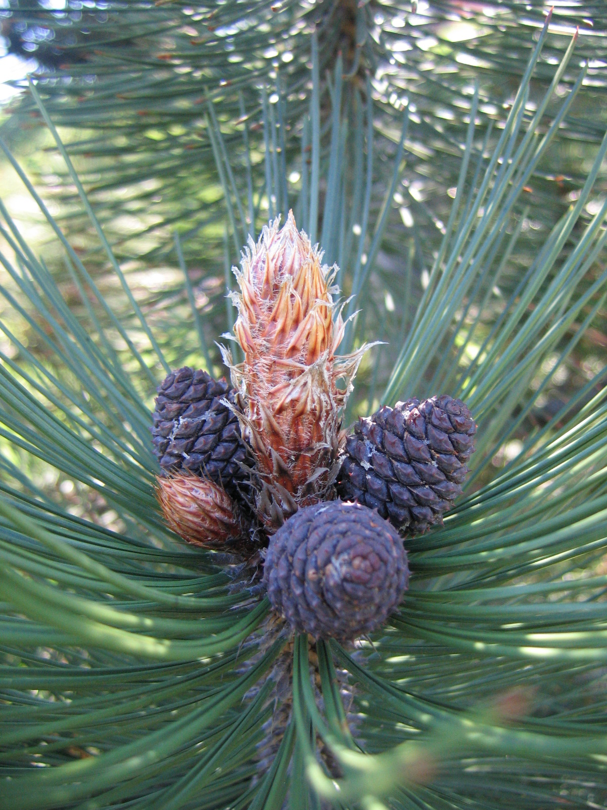 Bosnian Pine cultivar 'Satellit' (Pinus heldreichii 'Satellit'), young seed cones. Tree cultivated in Wrocław University Botanical Garden, Wrocław, Poland.